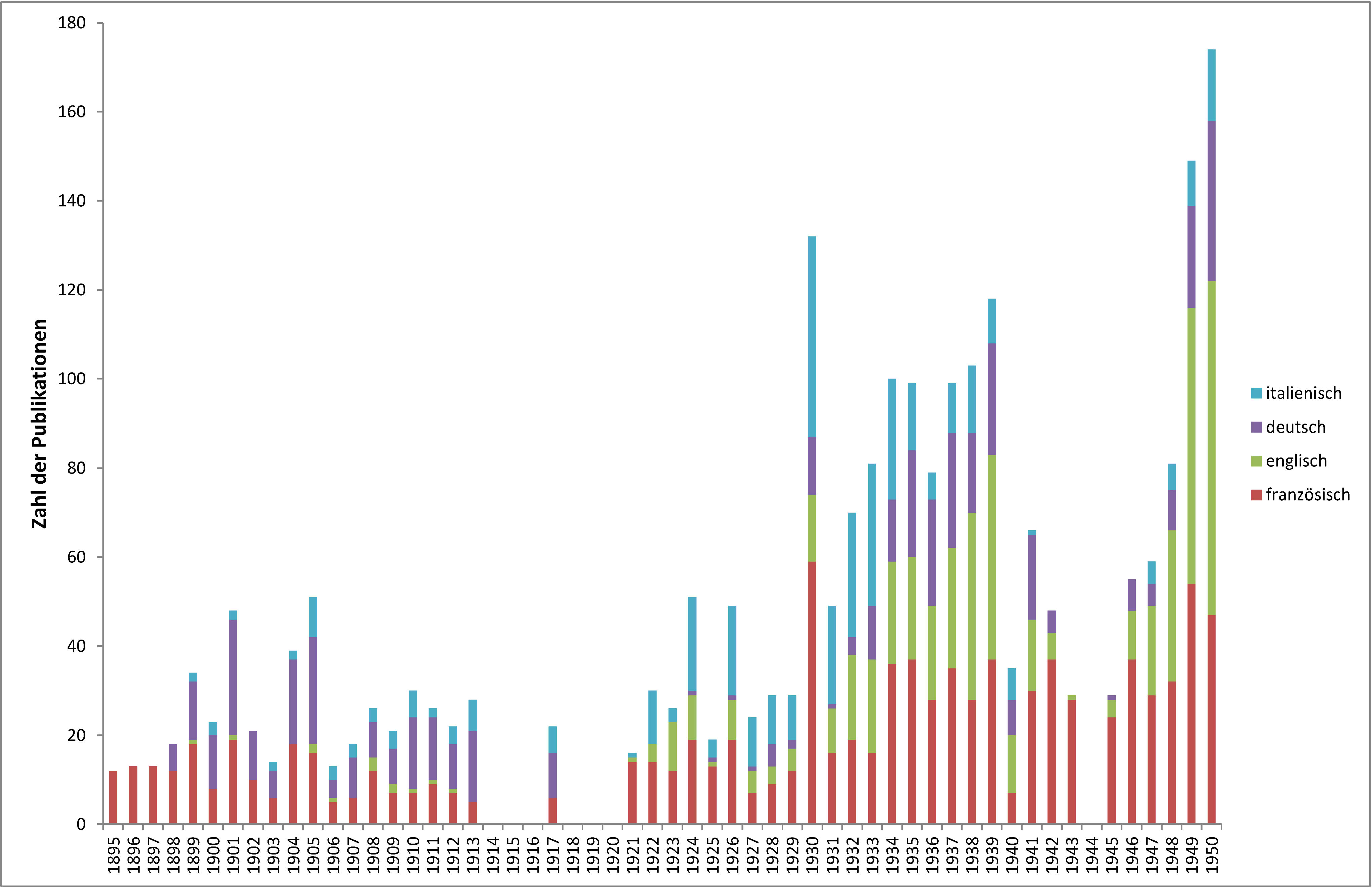 Publications per year (1895-1950) in "Archives internationales de Pharmacodynamie et de Thérapie"